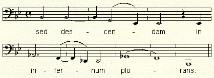 Josquin. Motet 'Absalon fili mi'. Example of word-painting